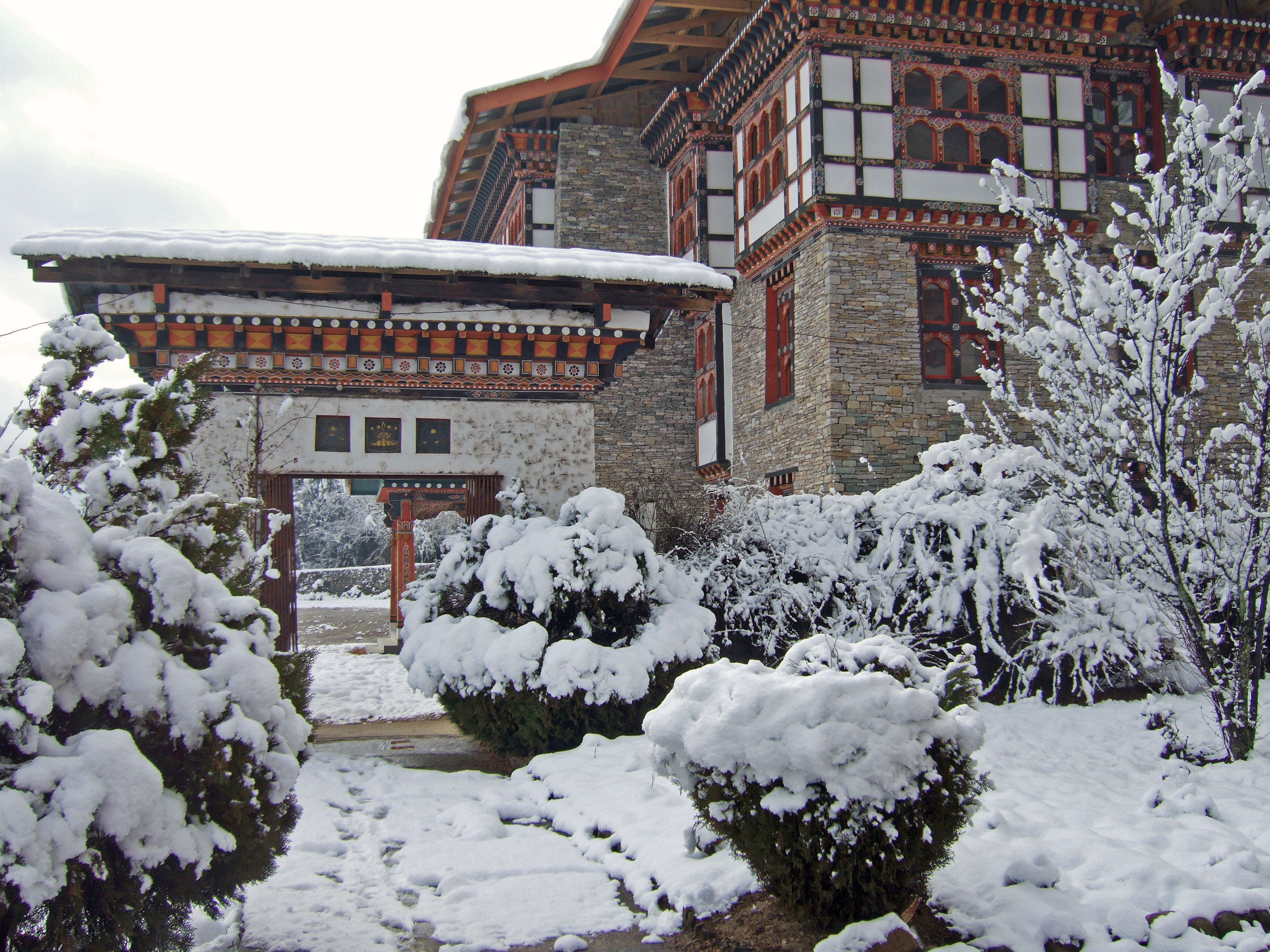 Grounds of the National Library of Bhutan in the Snow